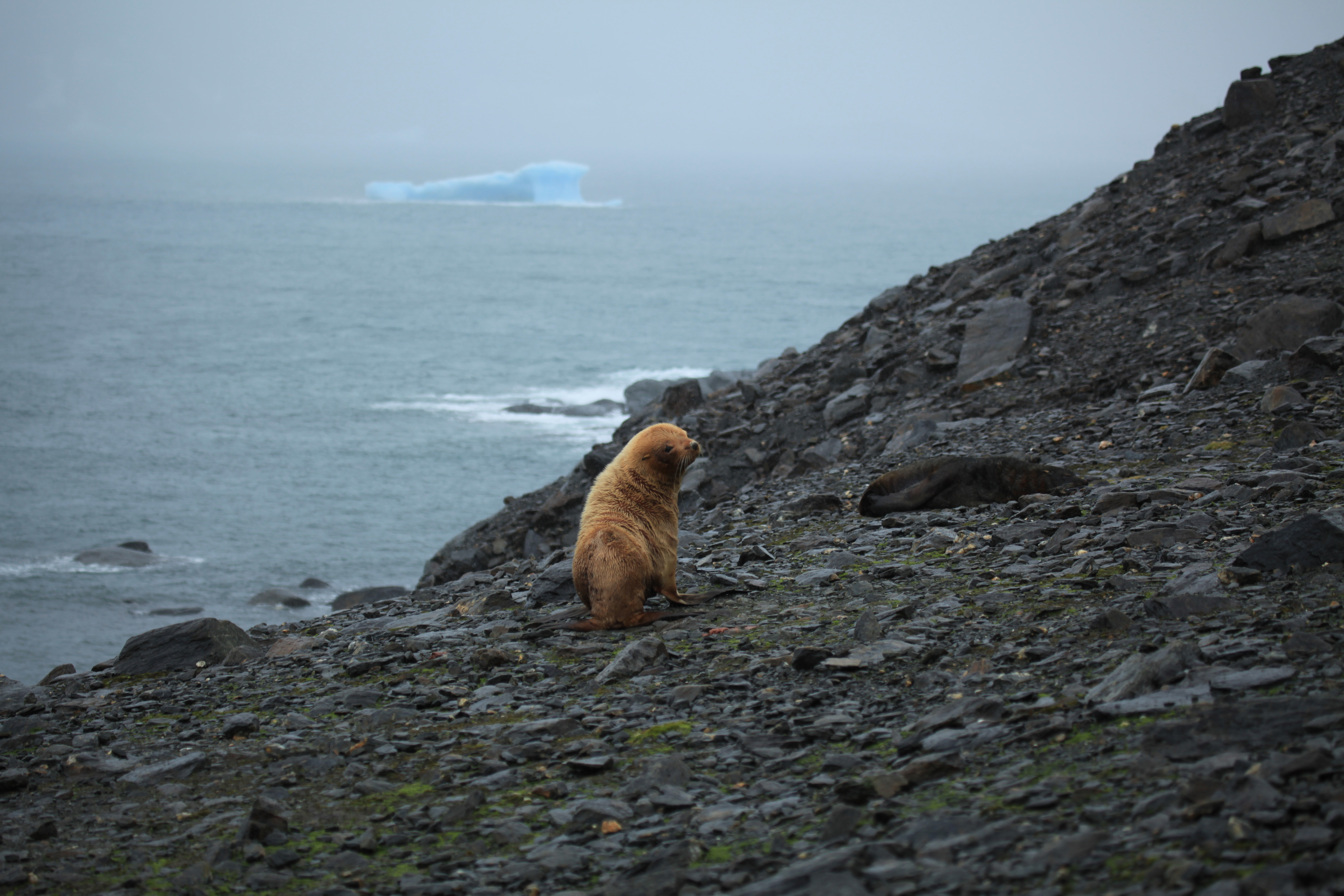 This blond fur seal has a condition called albinism that results in reduced pigmentation, photographed this rare seal at Shingle Cove, on Coronation Island in the South Orkneys.